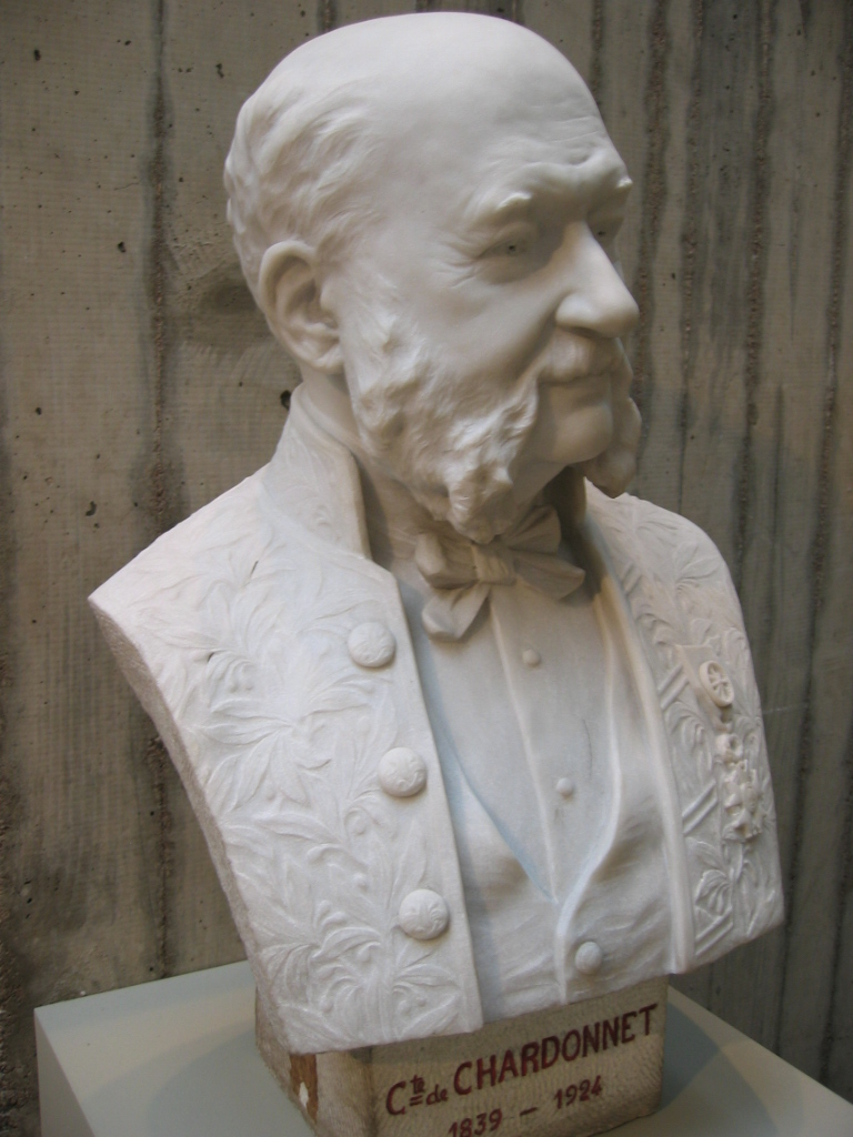 Bust of Comte de Chardonnay, sculpted by his daughter Anne de Chardonnet, Musée des beaux-arts de Besançon